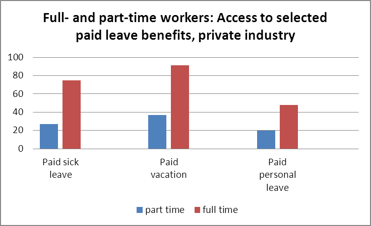 Full- and part-time workers: Access to selected paid leave benefits, private industry, from: National Compensation Survey (NCS), BLS, USDL, March 2011